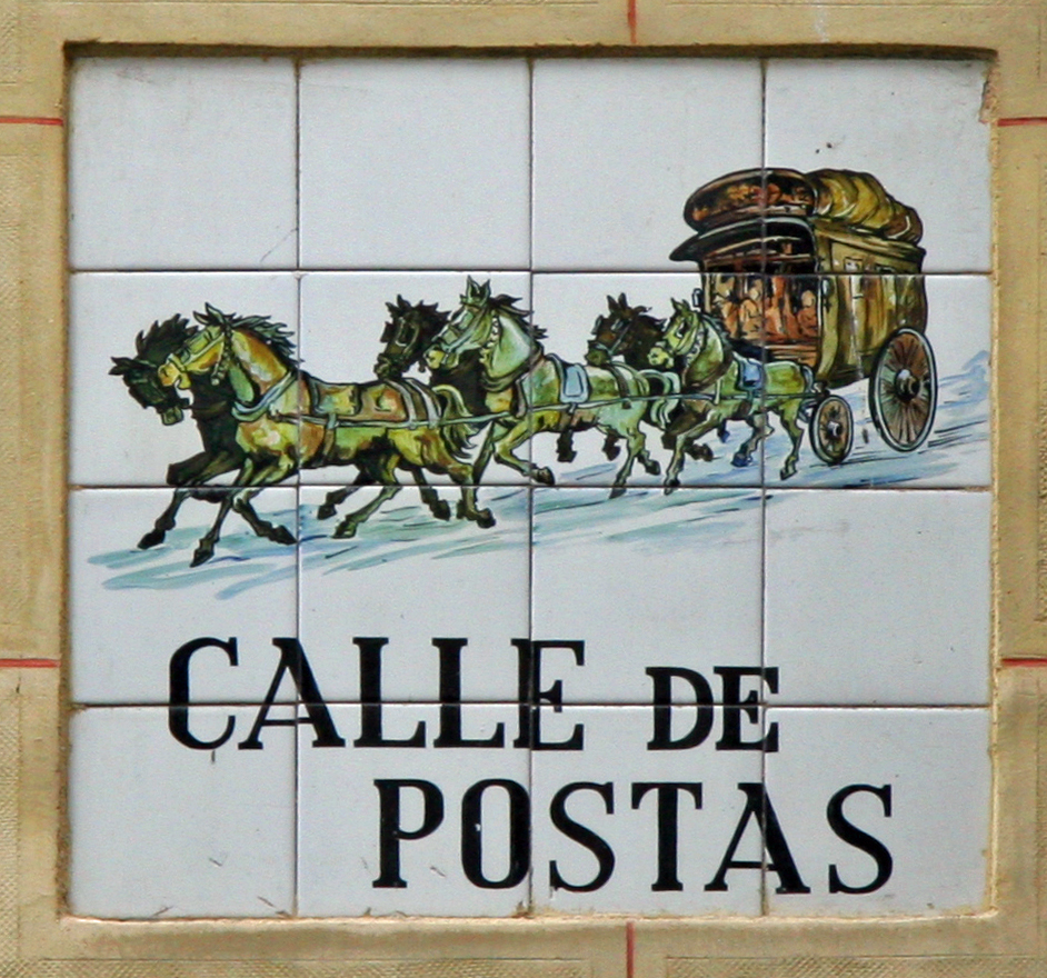 Sign of Calle de Postas (street, Centro district) in Madrid (Spain).